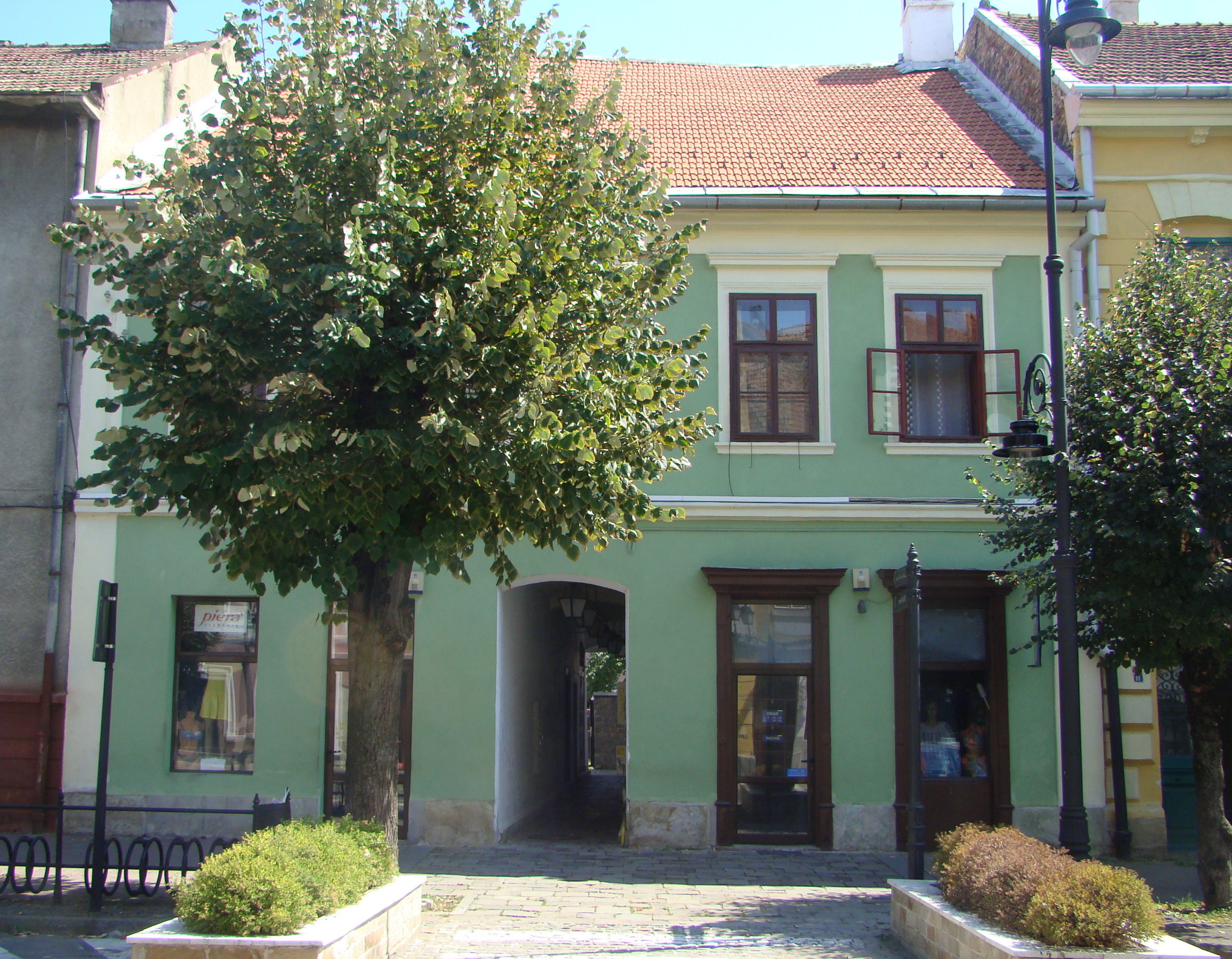 House, historic monument, in Bistrița, Gheorghe Șincai street 9